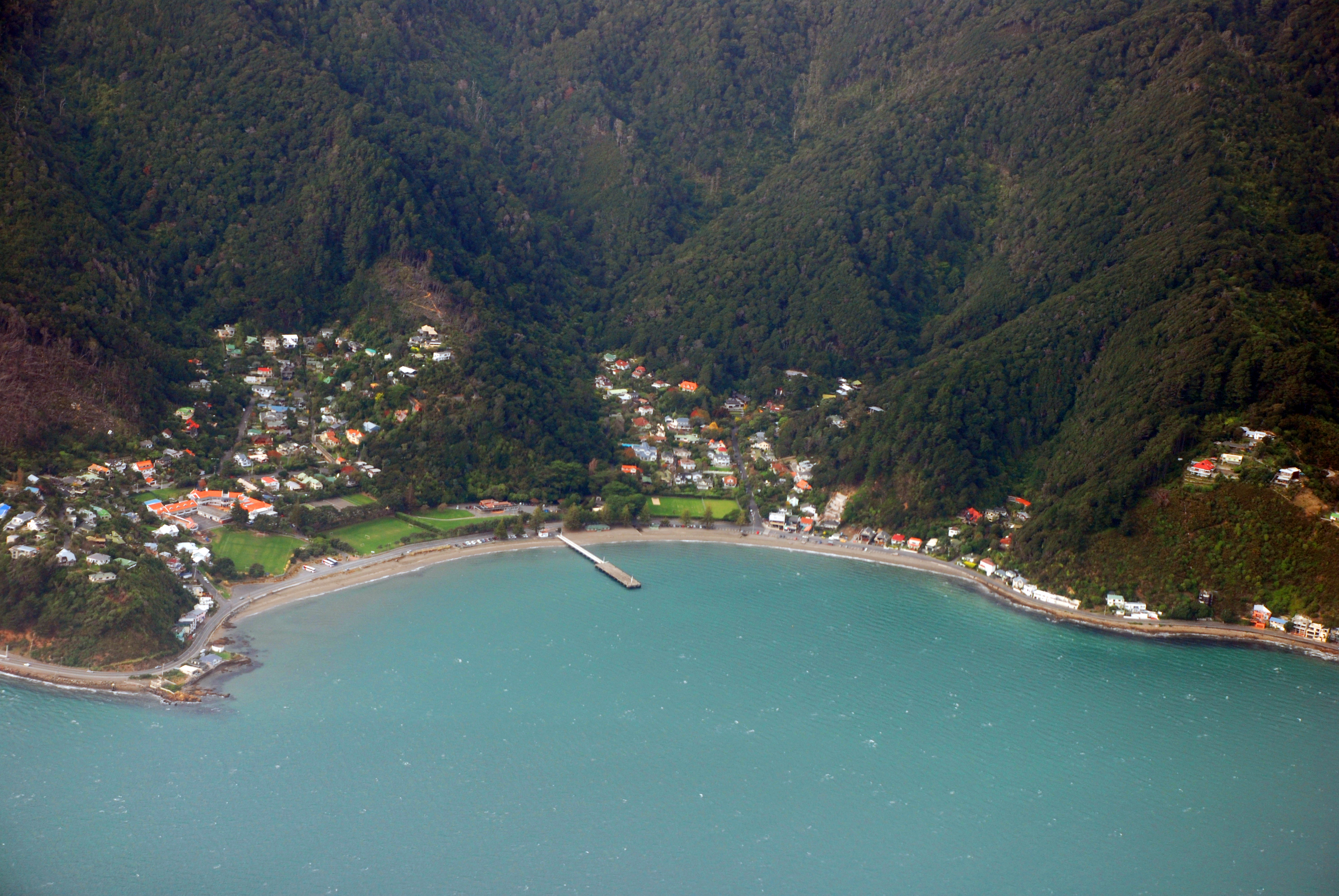 Days Bay, Wellington, New Zealand, 21 May 2007